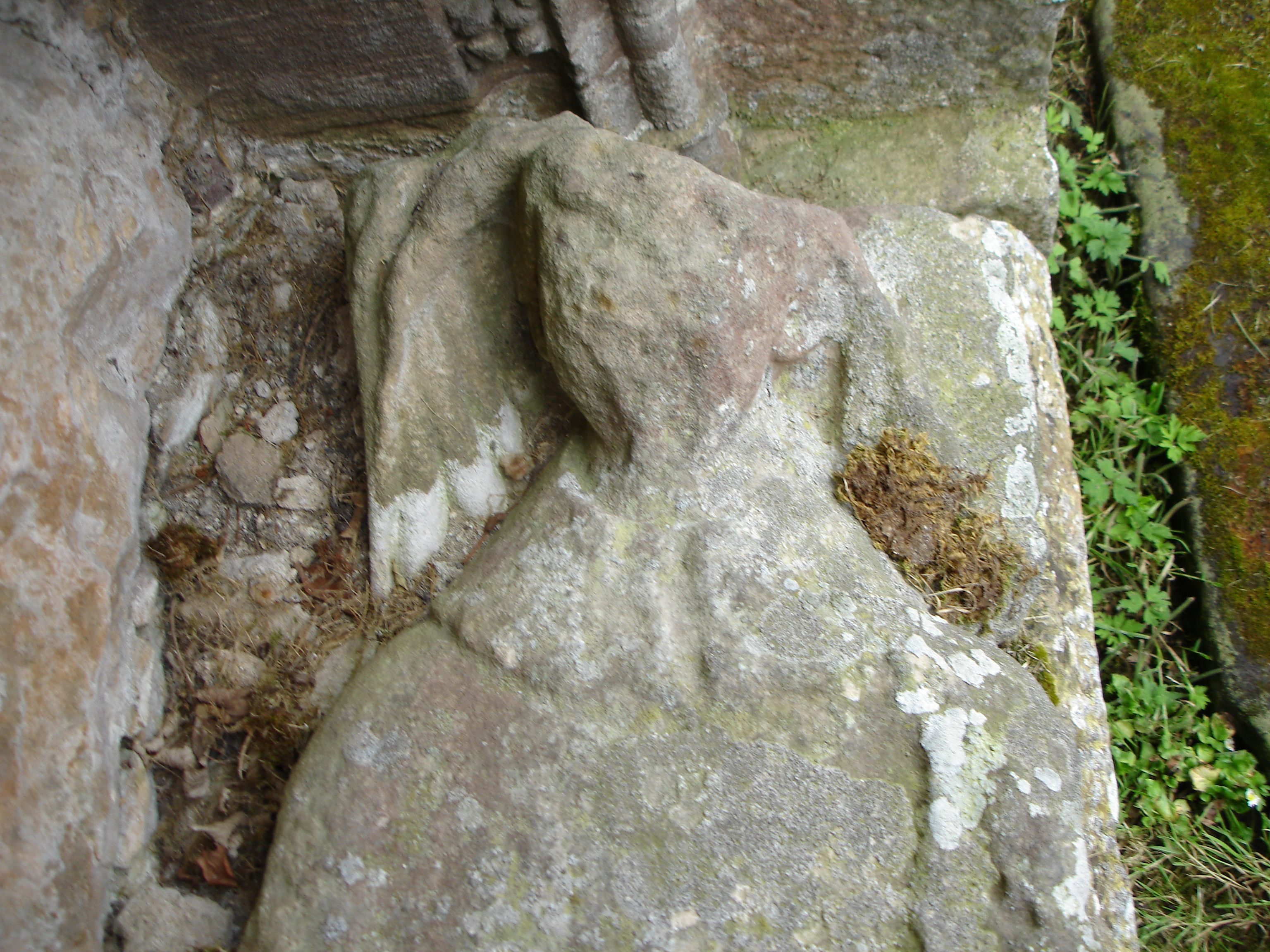 Uploader's own picture. Head of effigy from the tomb of Fionnlagh II, abbot of Fearn. Picture taken at Fearn Abbey in summer 2006.